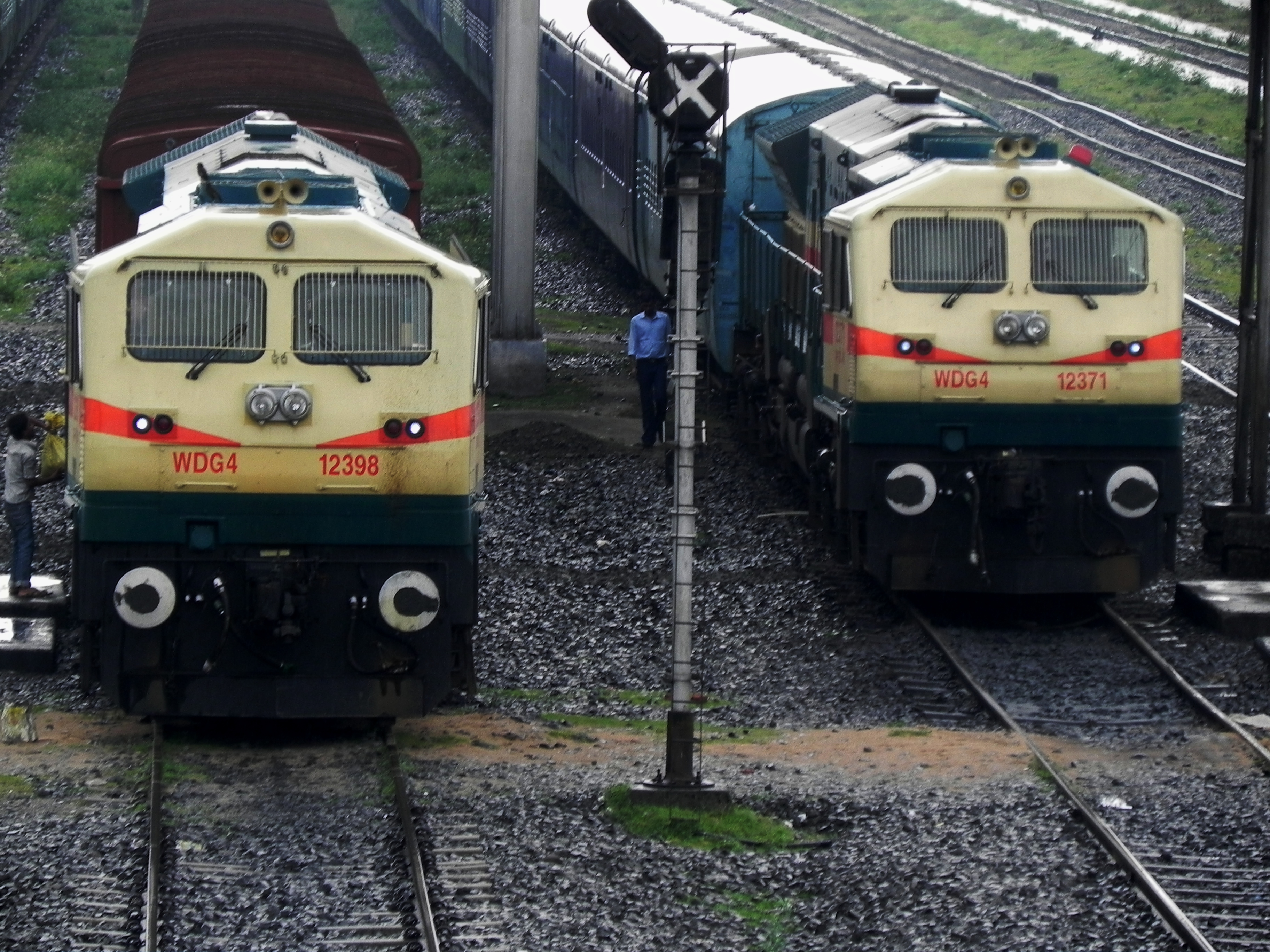 SGUJ based WDG-4 locos at New Jalpaiguri yard, West bengal